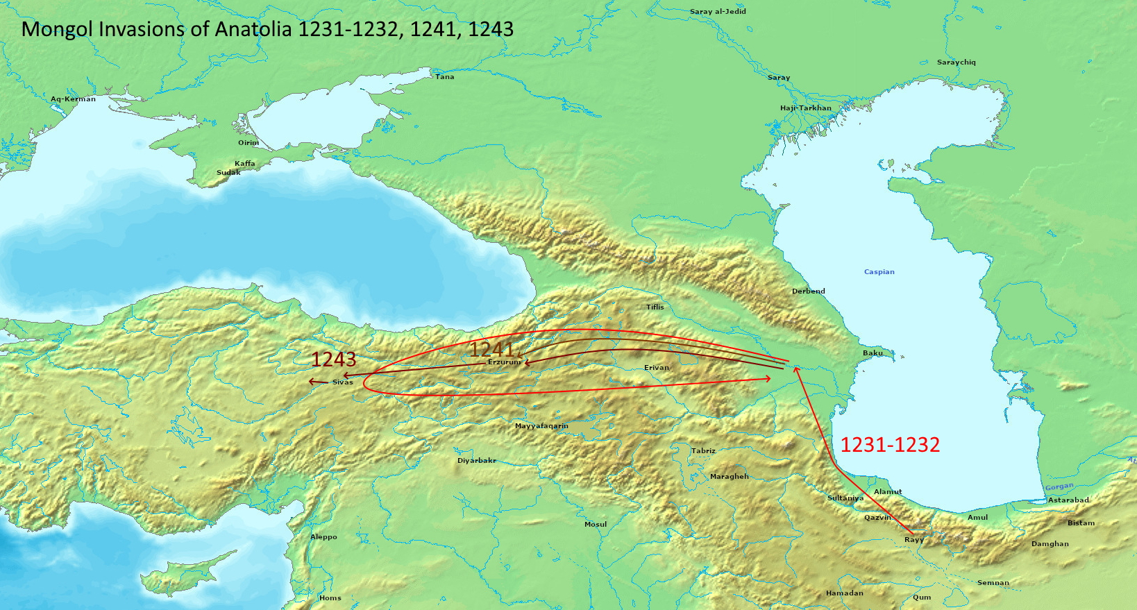 Mongol invasions of Anatolia 1231-1232, 1242-1243